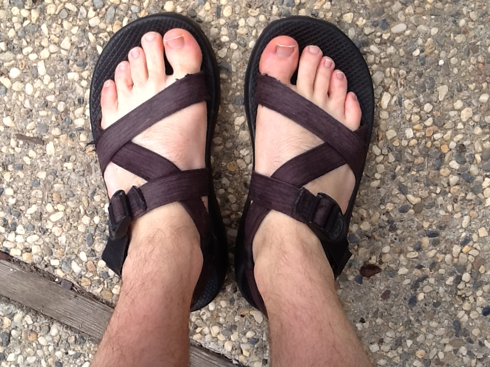 This is a picture from above of a pair of men's size 9 wide Chaco brand Z/1 sandals with a faded and frayed black strap on a white male.